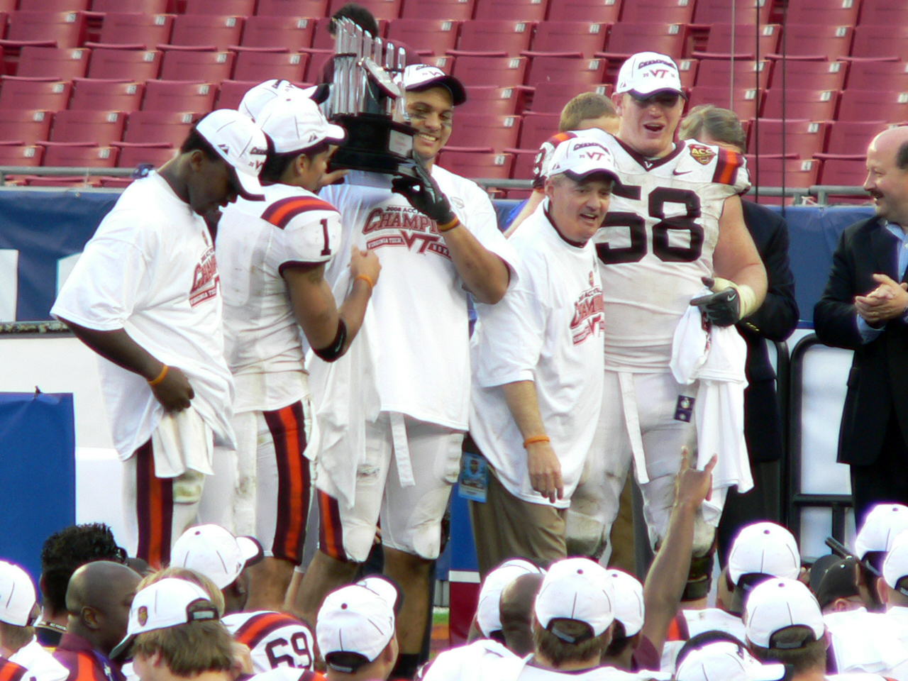 Virginia Tech football players hoist the 2008 ACC football championship trophy after the conclusion of the championship game.